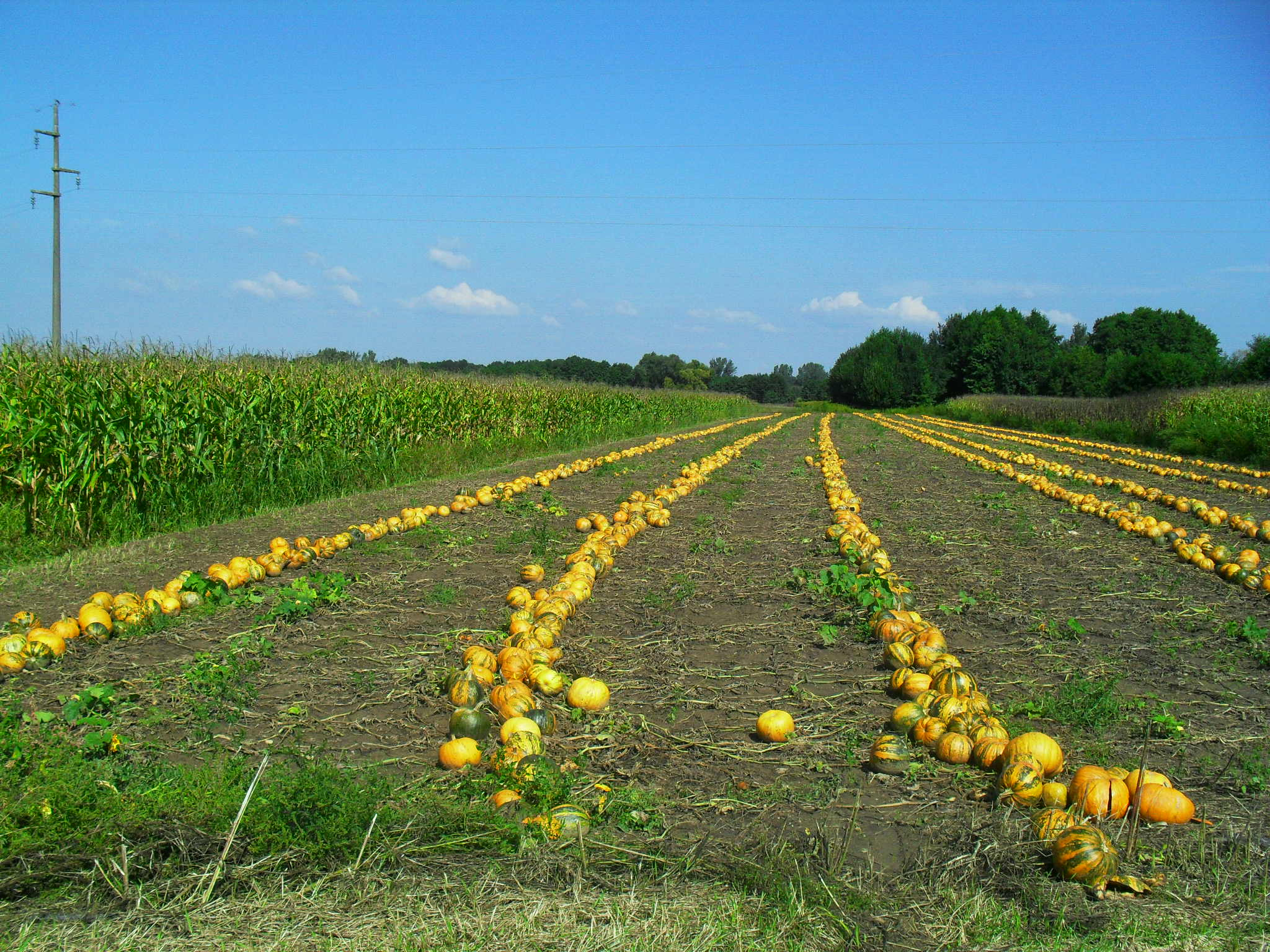 Gourds (Kajkavian/kajkavski tikve) near Hemuševec, Međimurje, Croatia